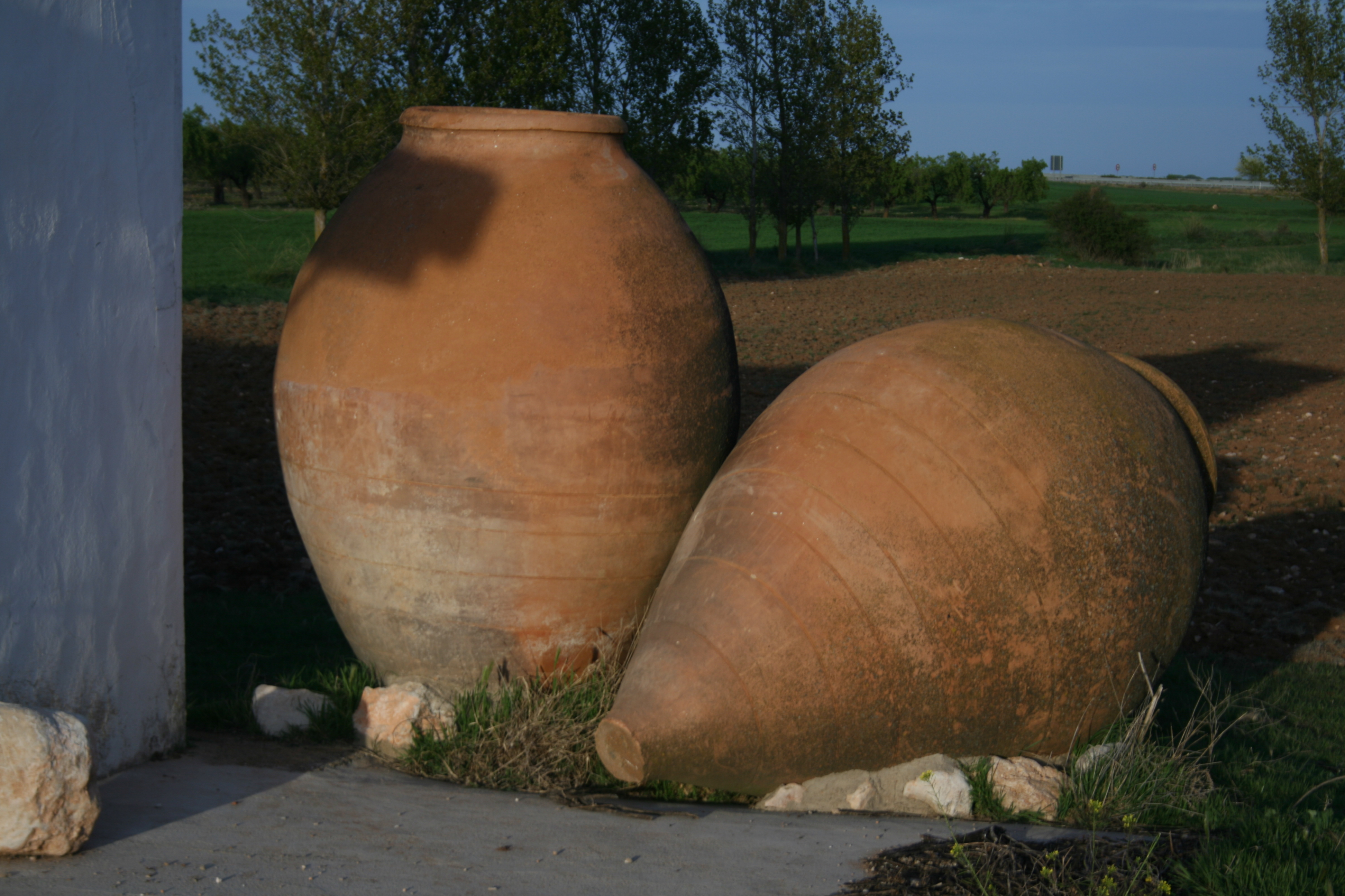 Wine Barrels